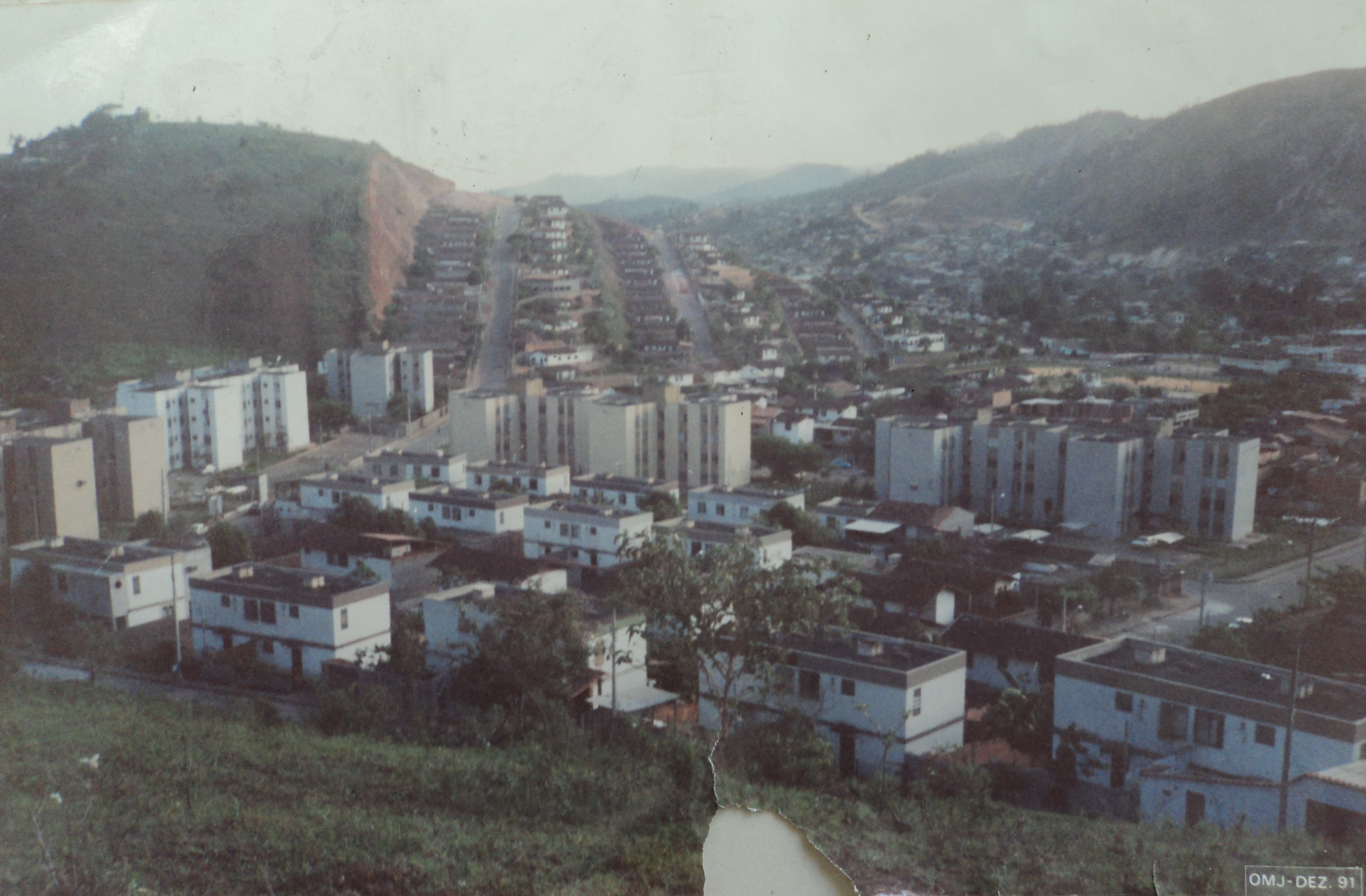 View of the Floresta neighborhood in 1991, in Coronel Fabriciano, Minas Gerais, Brazil.